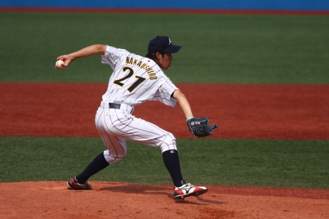 Yuhei Nakaushiro, pitcher of the Japan national baseball team, at Meiji Jingu Stadium.